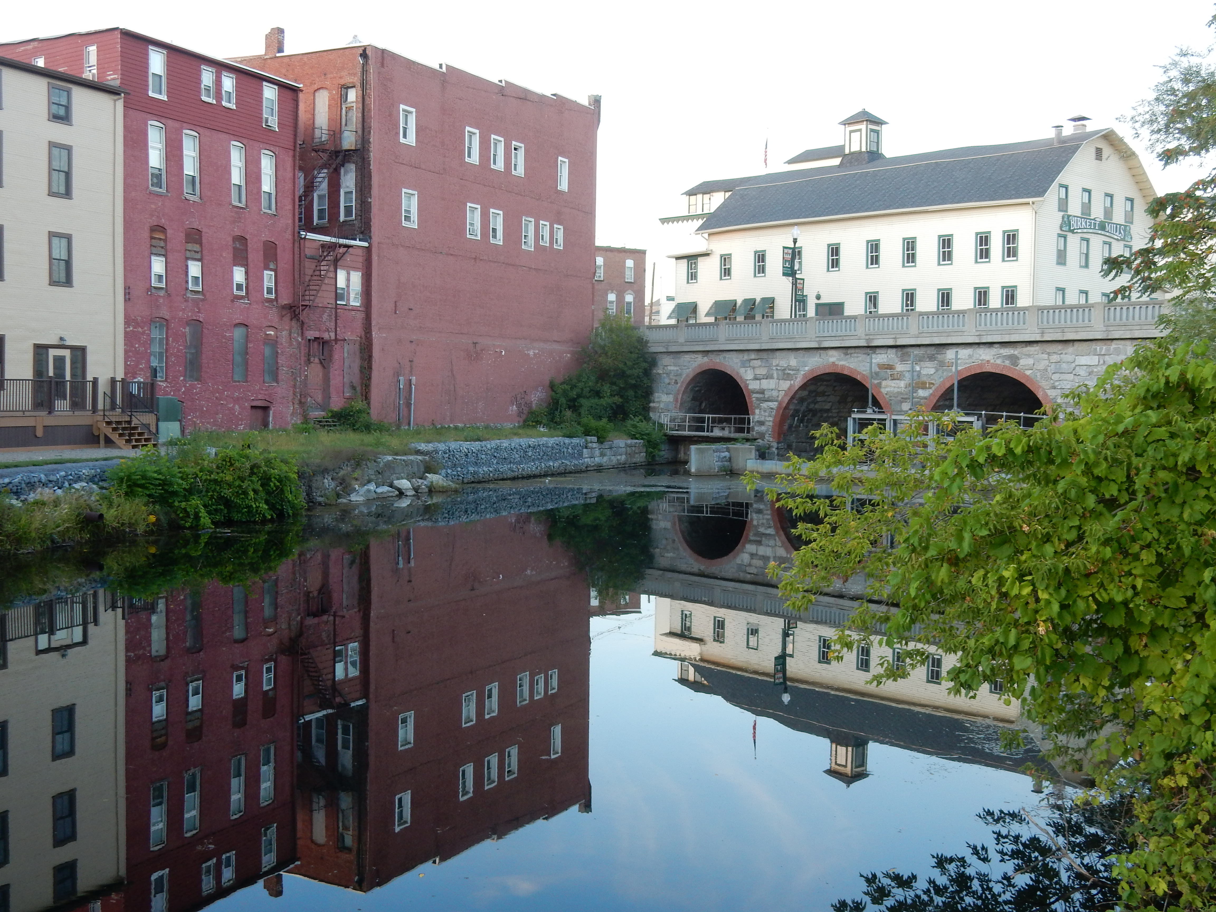 Main Street Bridge over Keuka Lake Outlet. View from Keuka Lake Outlet Trail. Looking north.